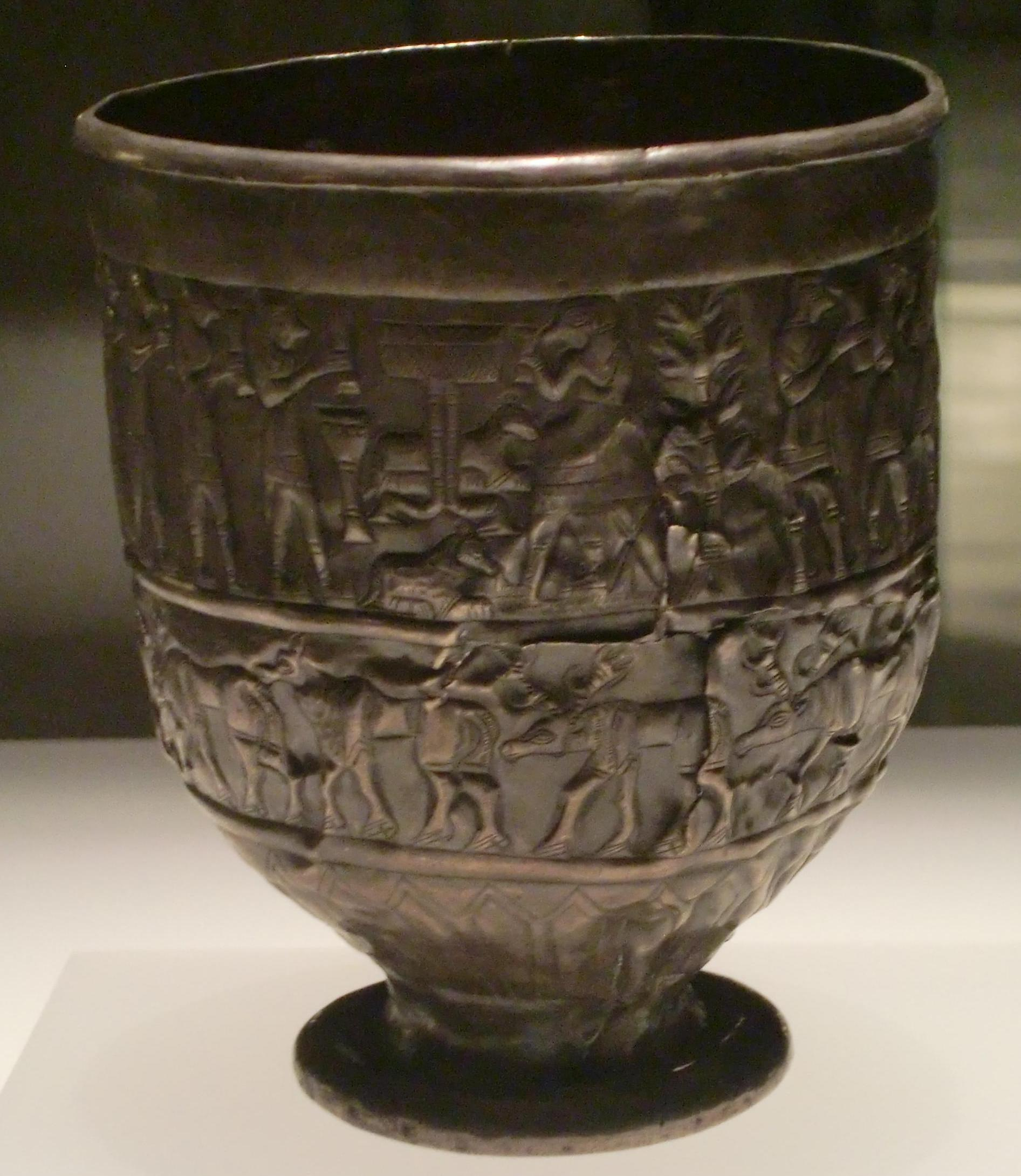 Trialeti silver cup, with thanks to the Georgian National Museum for allowing photography